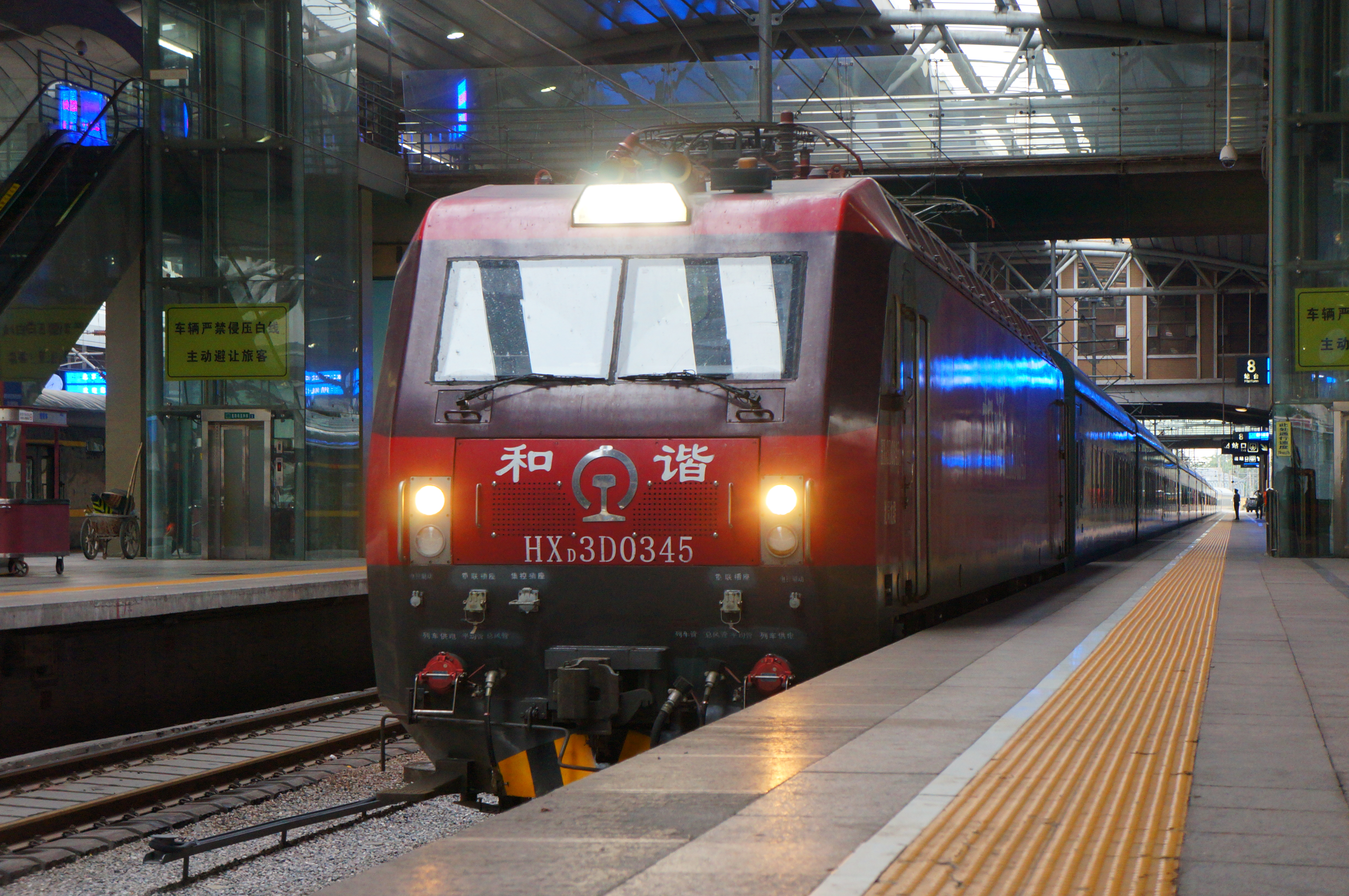 201606 Z622 arrived at Beijing Station